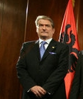 Sali Berisha, Prime Minister of Albania, during a meeting in Dubrovnik, Croatia, on May 7, 2006.